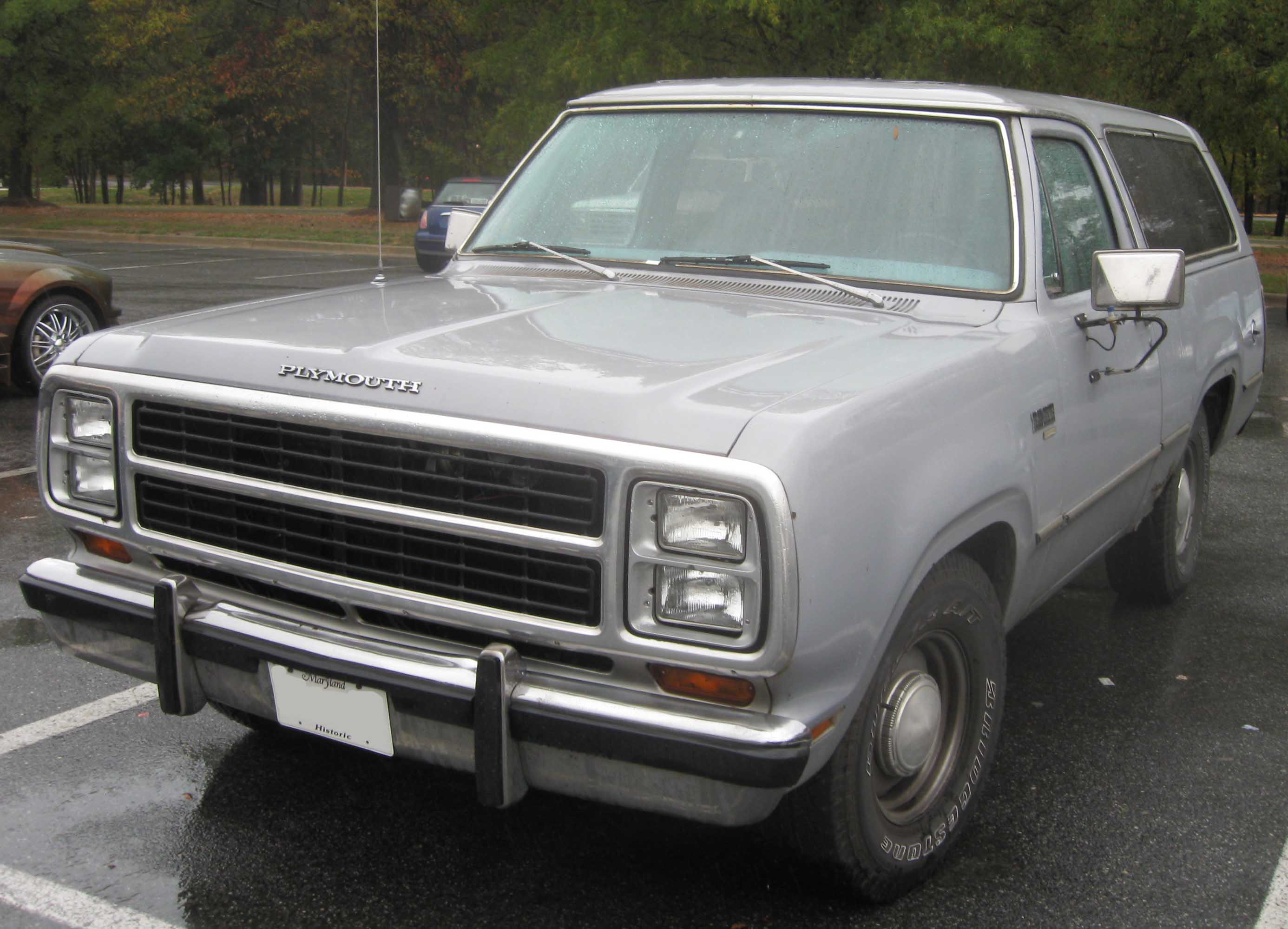 1977-1980 Plymouth Trail Duster photographed in Waldorf, Maryland, USA.